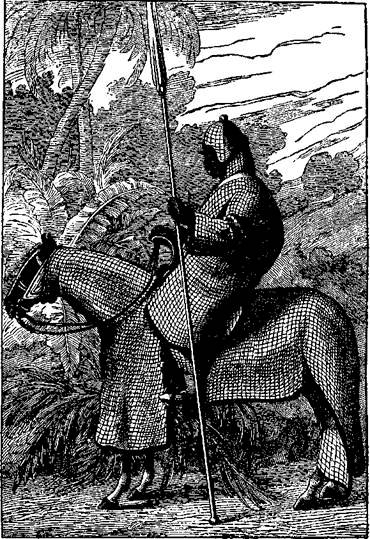 Warlord Sultan Baguirmi